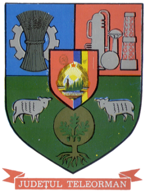 Communist coat of arms of Teleorman County, Socialist Republic of Romania.